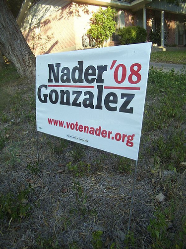 Ralph Nader-Matt Gonzalez sign on a voter's lawn during the 2008 U.S. Presidential election.